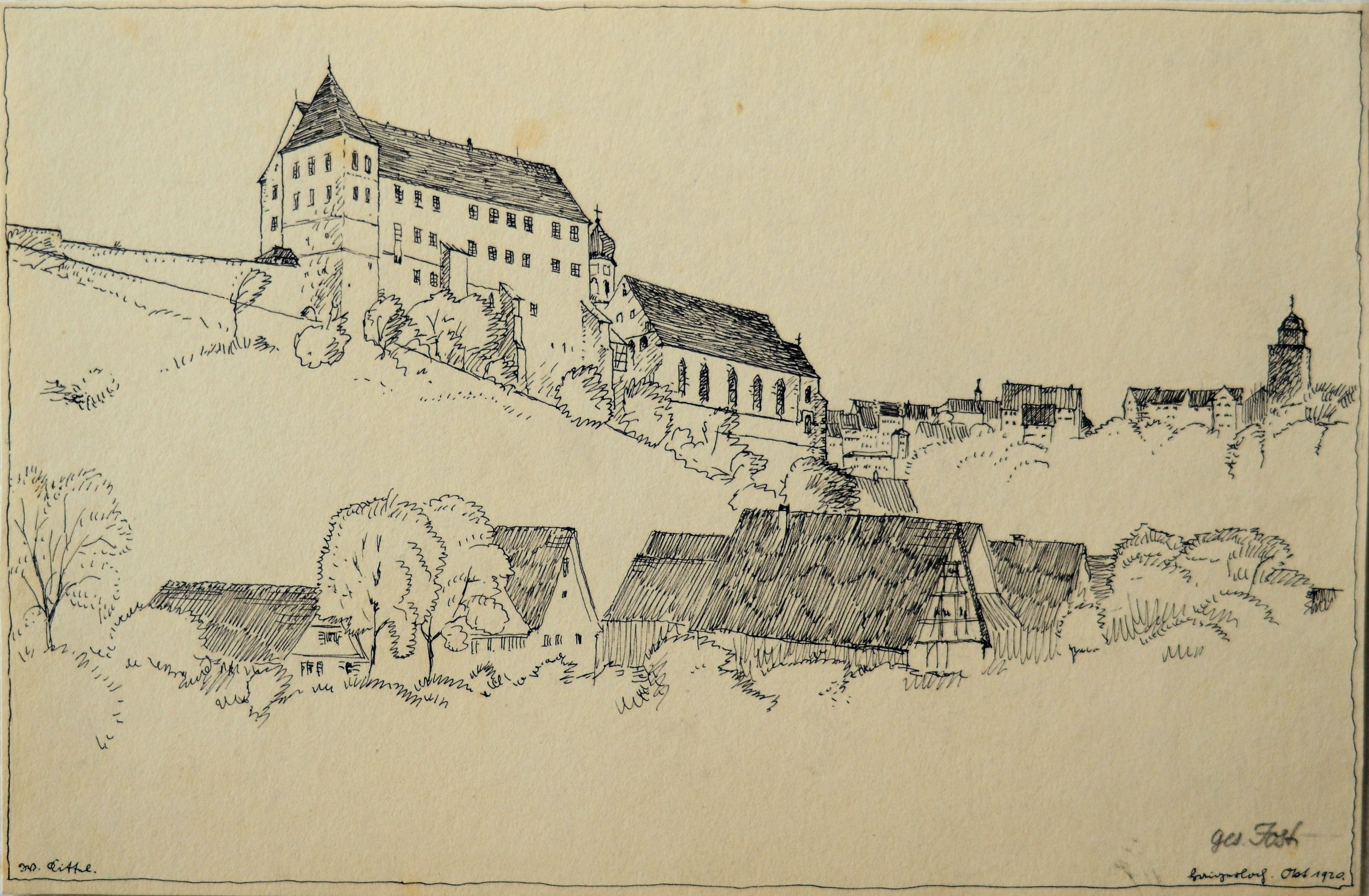 Haigerloch Castle, drawing by architecht Walter Kittel, 1920